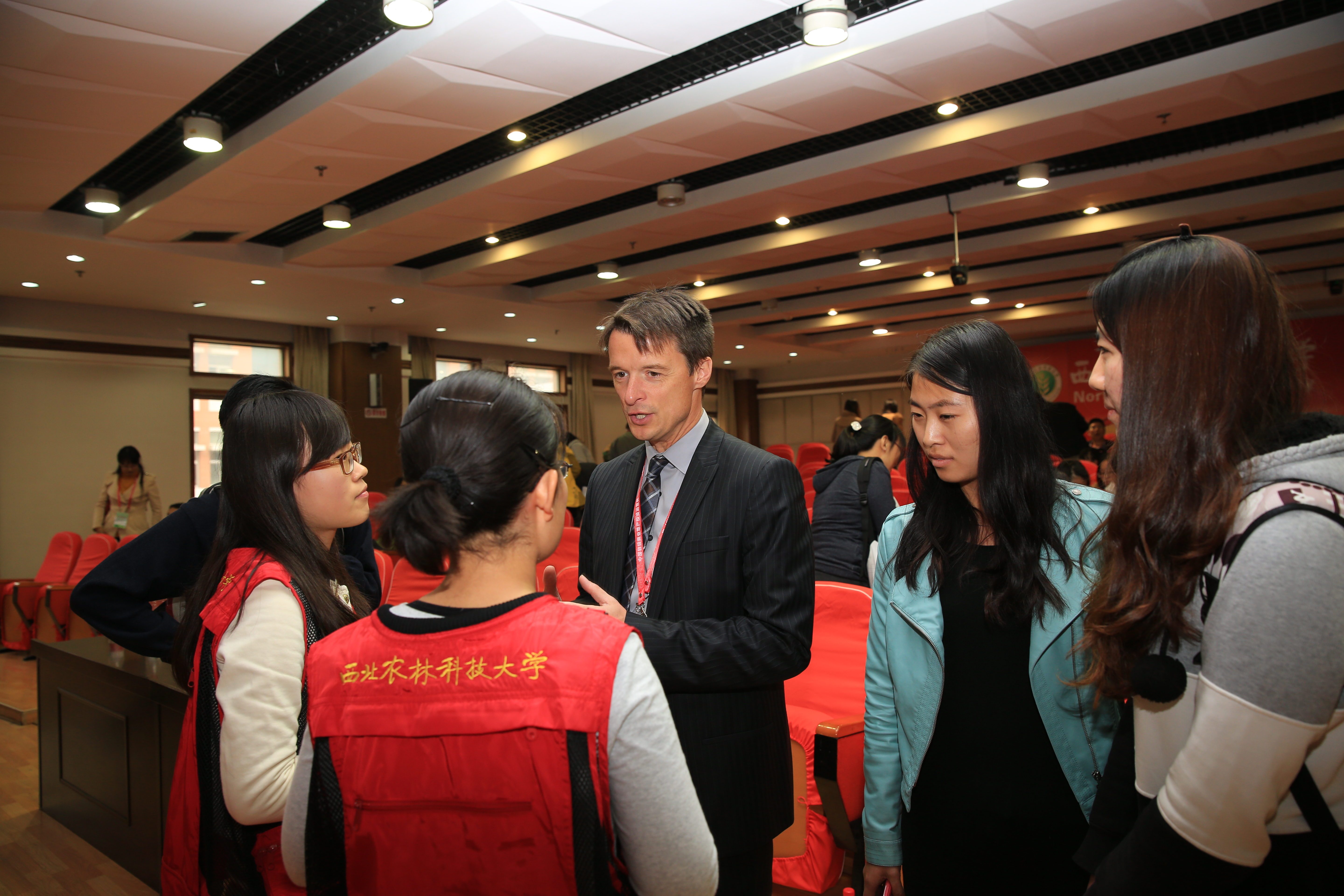 China